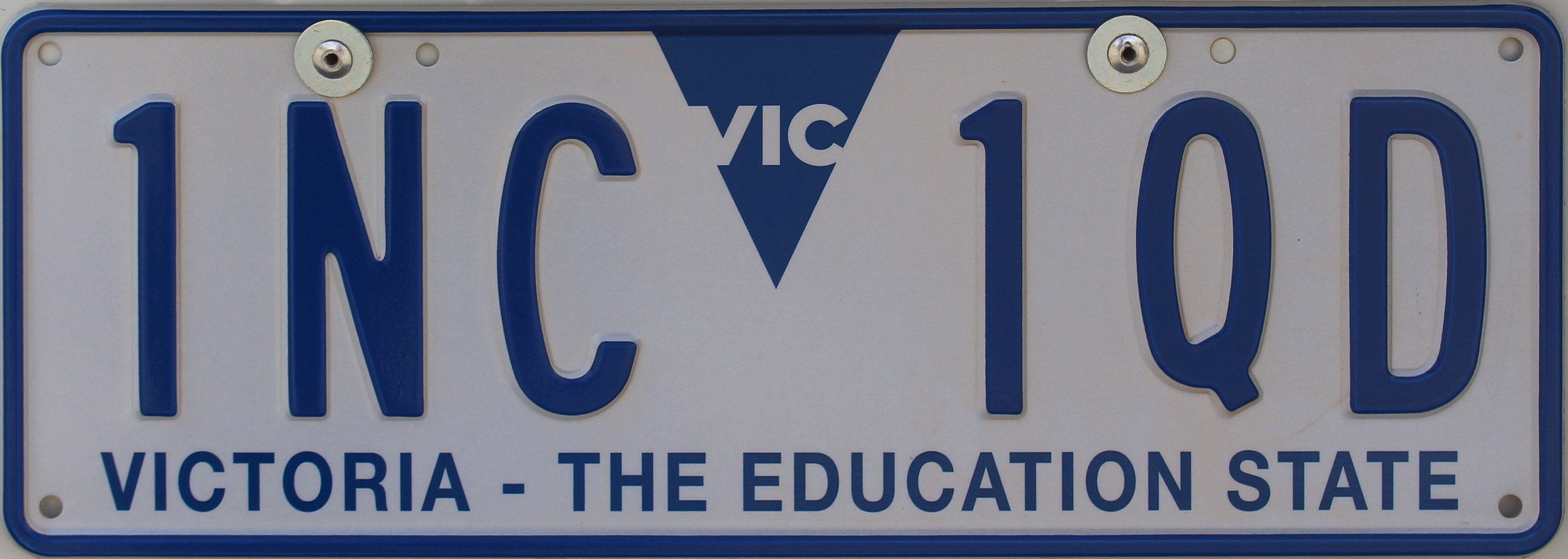 General vehicle registration plate of Victoria, standard size, 1NC 1QD, The Education State.